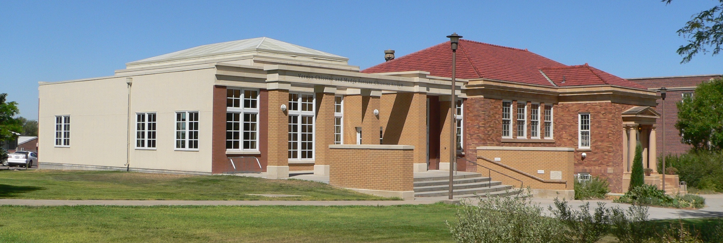 Mari Sandoz High Plains Heritage Center, on the campus of Chadron State College in Chadron, Nebraska; seen from the southeast. The building was formerly the college's library; the Classical Revival building was constructed in 1929, and is listed in the National Register of Historic Places. Attached to the building on the south is the Chicoine Atrium, built in 2002.